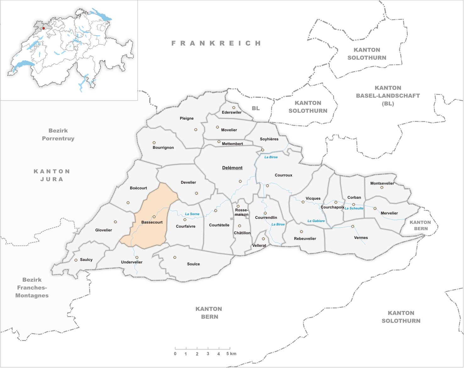 Municipality Bassecourt